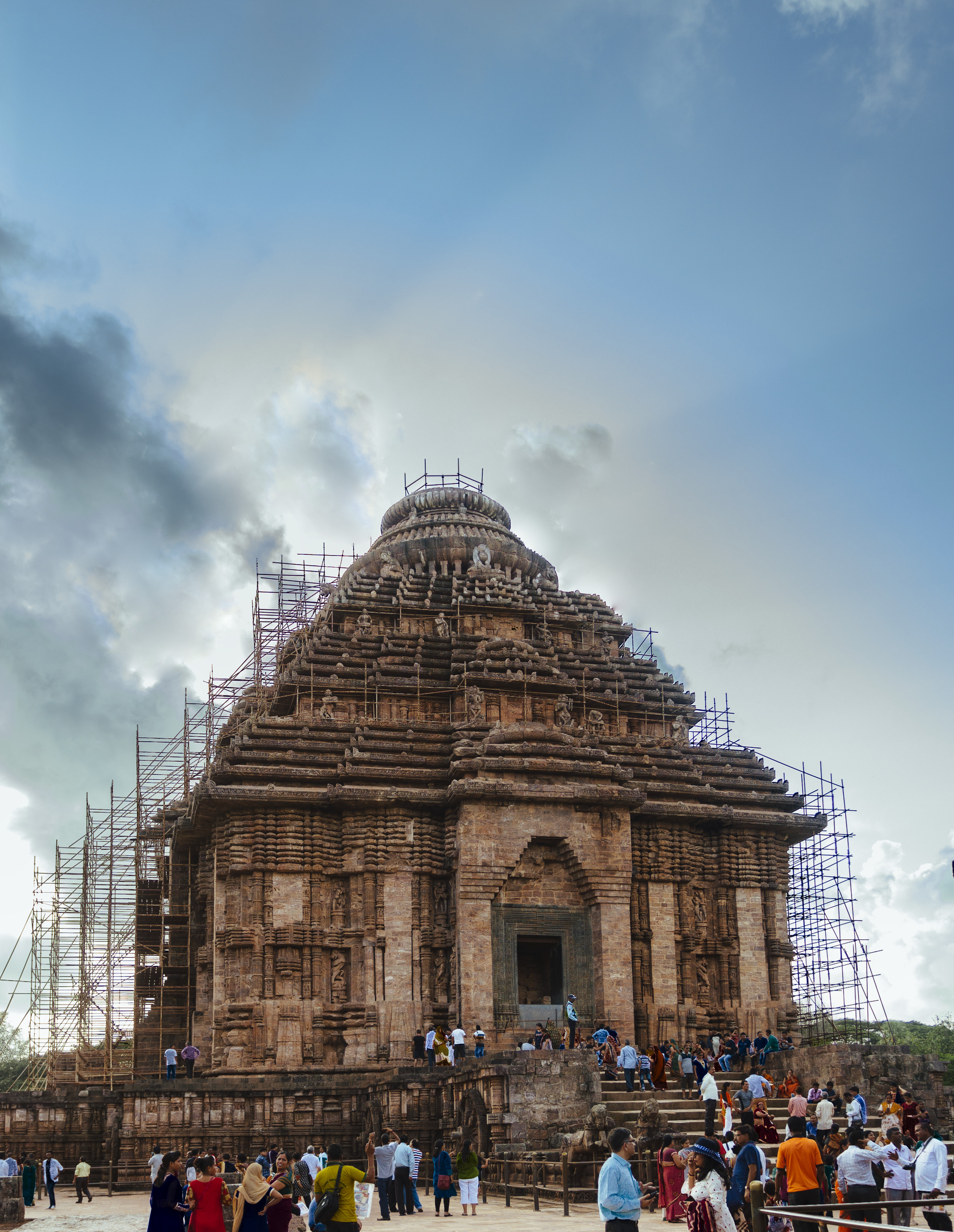 Konark Sun Temple is a 13th century Sun Temple (also known as the Black Pagoda), at Konark, in Orissa. It was constructed from oxidized and weathered ferruginous sandstone by King Narasimhadeva I (1238-1250 CE) of the Eastern Ganga Dynasty. The temple is an example of architecture of Orissa from Ganga dynasty . The temple is one of the most renowned temples in India and is a World Heritage Site.